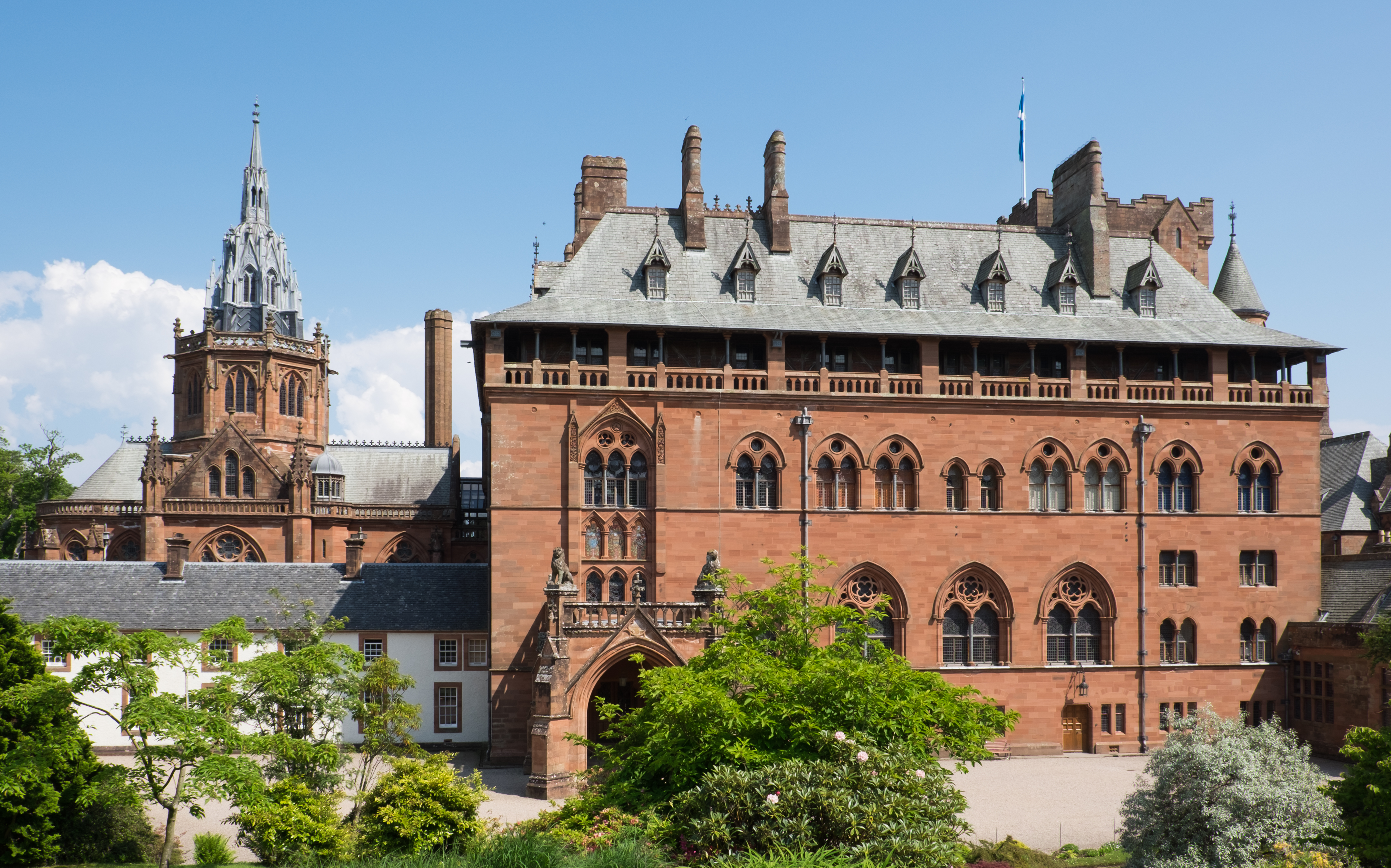 Mount Stuart House, Isle of Bute - west view